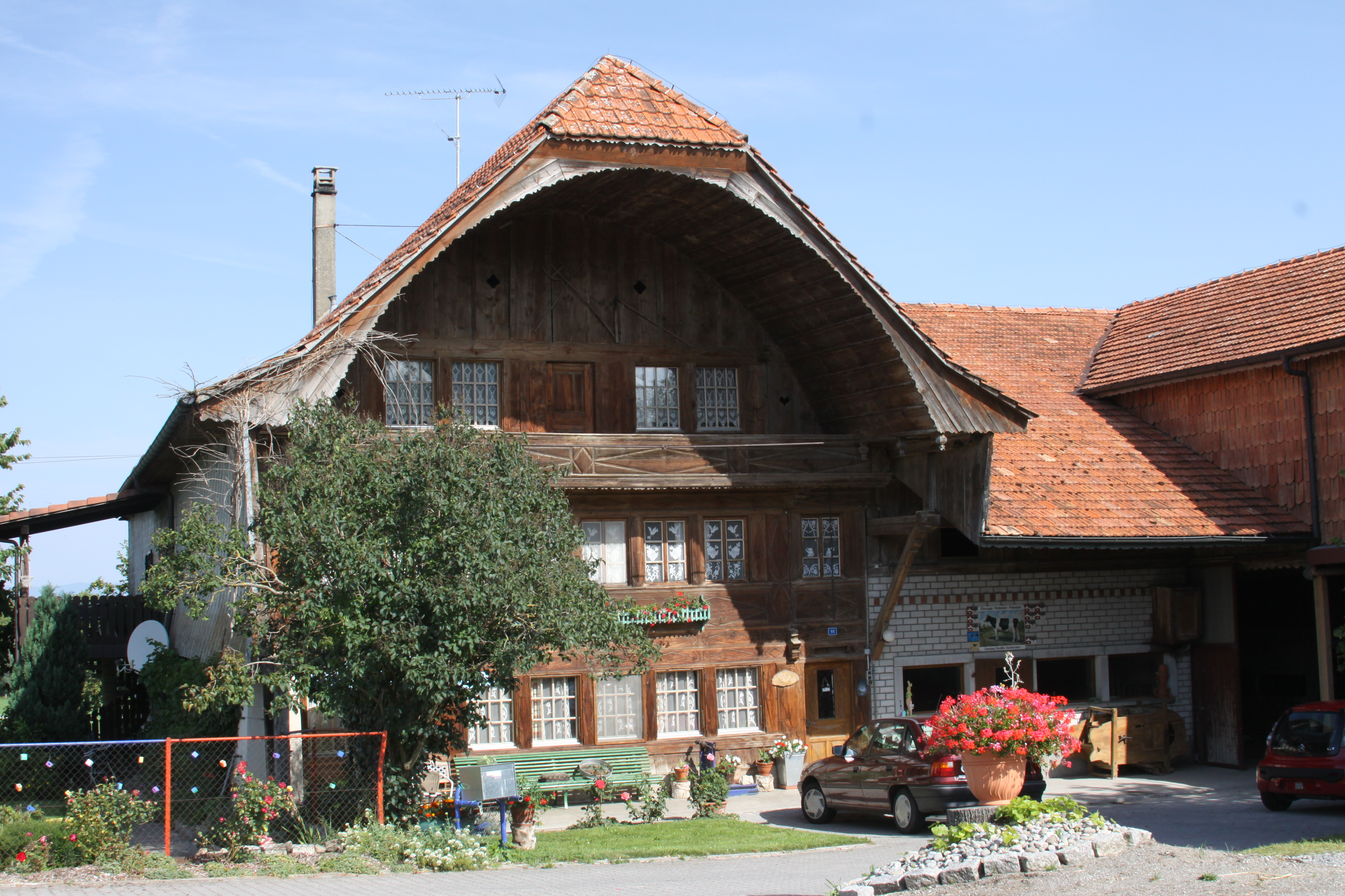 Farmhouse, Route de Villariaz 11, Vuisternens-devant-Romont